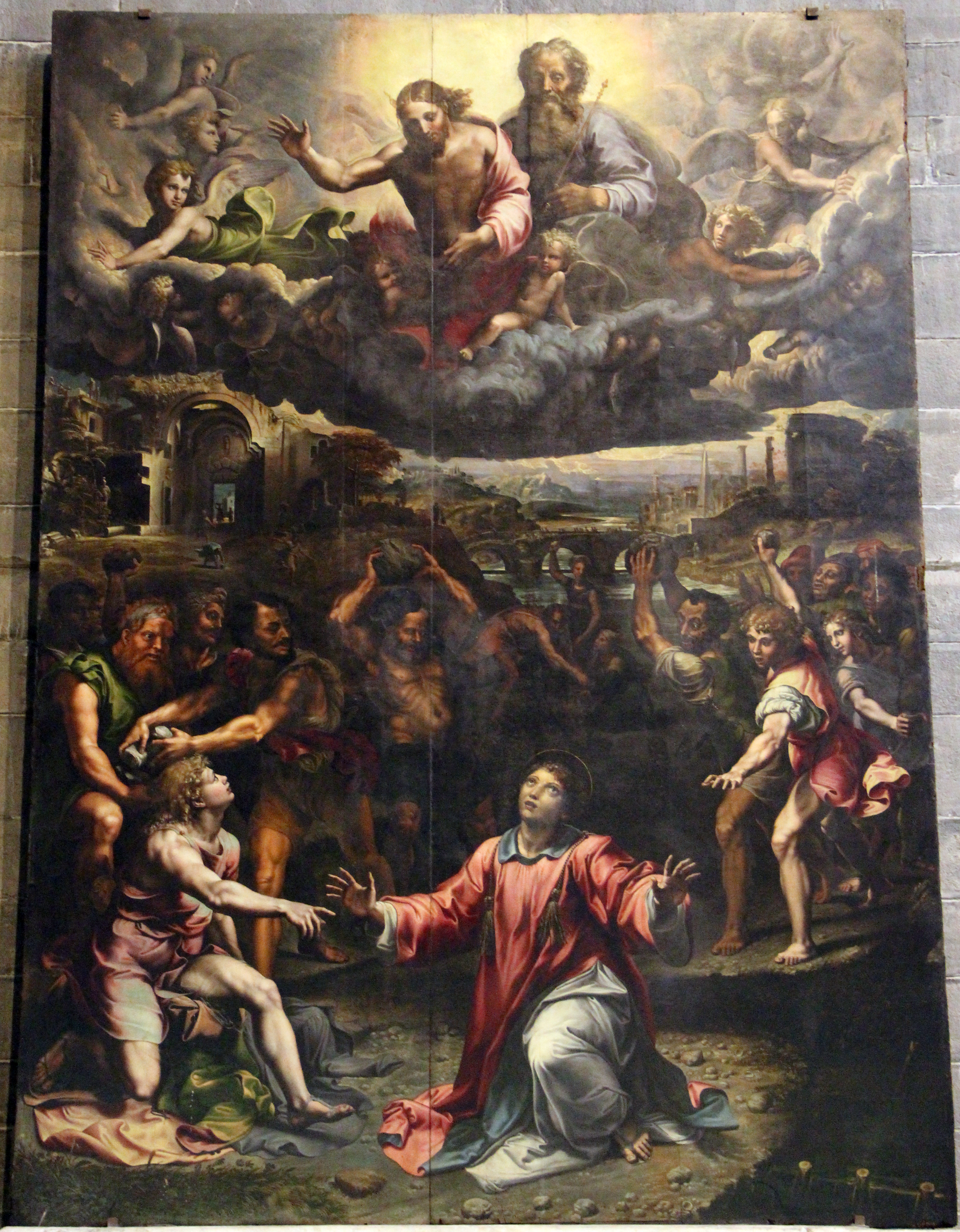 Martyrdom od Saint Stephen by Giulio Romano